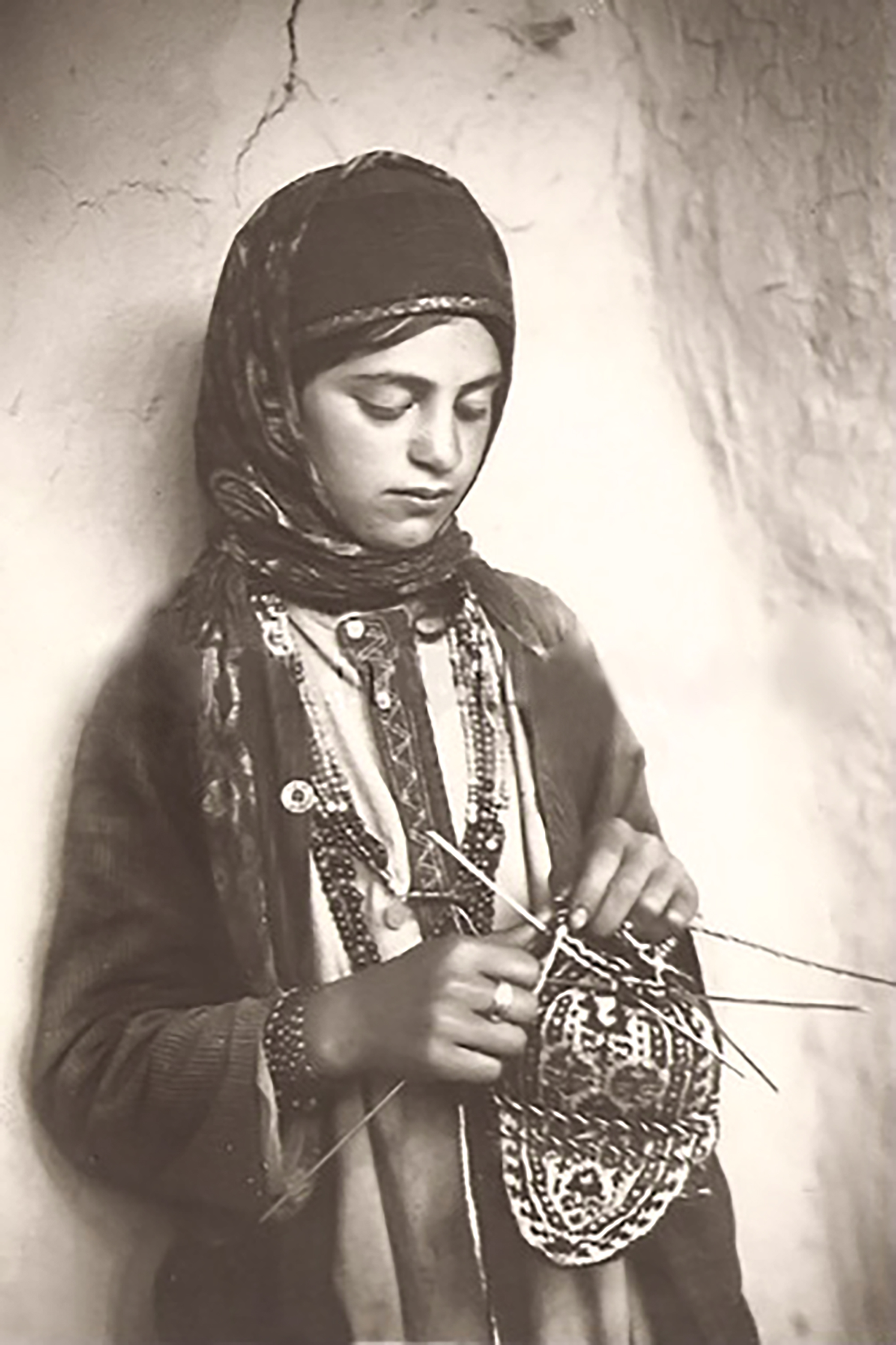 Talysh girl from Tulu village (Astara Rayon, Azerbaijan)